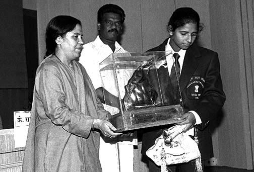 The Minister of State for Youth Affairs and Sports Uma Bharti Presenting National Adventure Award in Water Adventure for the Year 1996-97 to Ms. Rupali Ramdas Repale from Maharashtra, who is the first Youngest Person to cross six straits out of the seven in the World, during a function in New Delhi on June 9,1999.